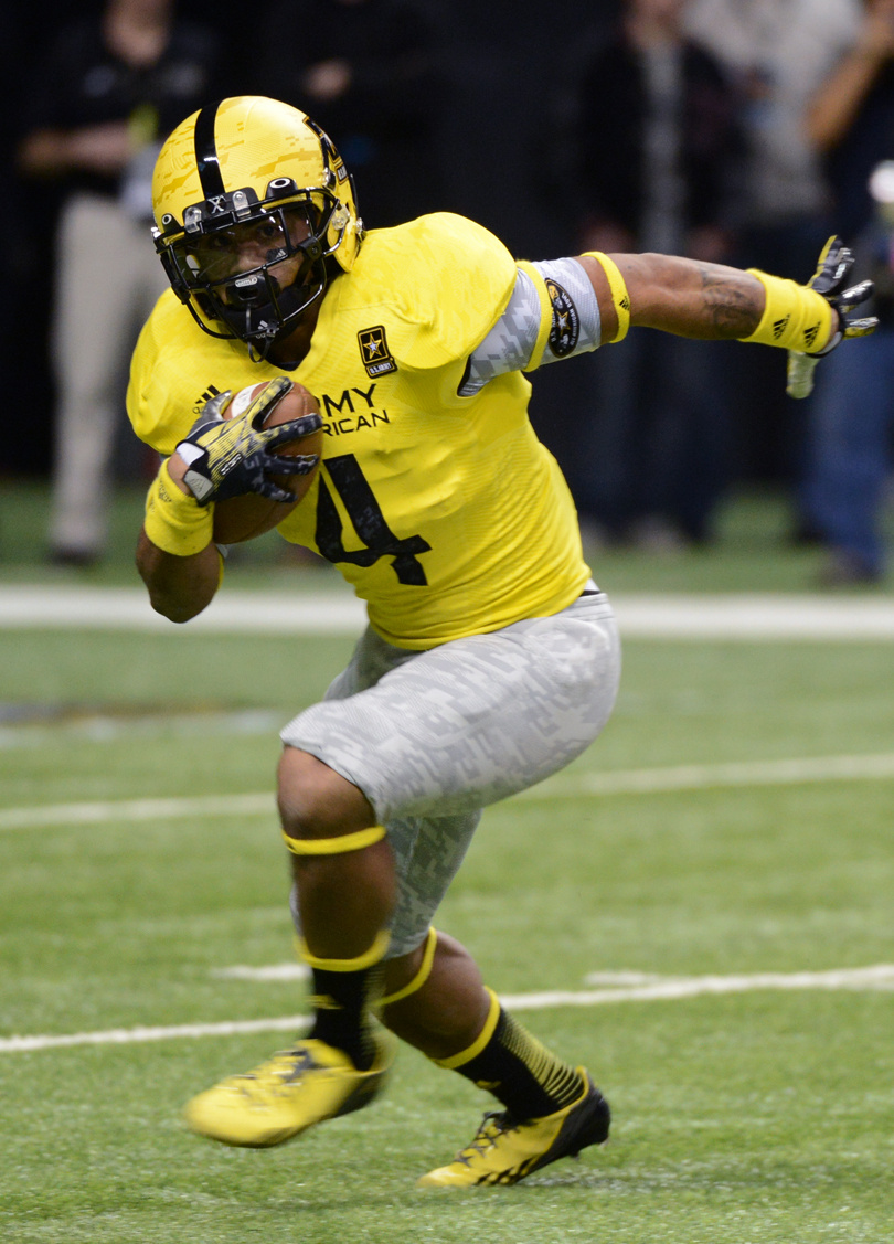 University of Oregon-bound running back Thomas Tyner of Aloha (Ore.) High School rushes for 14 yards on four carries in the 2013 U.S. Army All-American Bowl, Jan. 5, at the Alamodome in San Antonio. East won the game, 15-8, over the West. (U.S. Army photo by Tim Hipps, IMCOM Public Affairs)